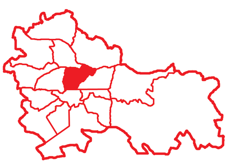 Distrtict of Ljubljana. The district Bežigrad is highlighted.